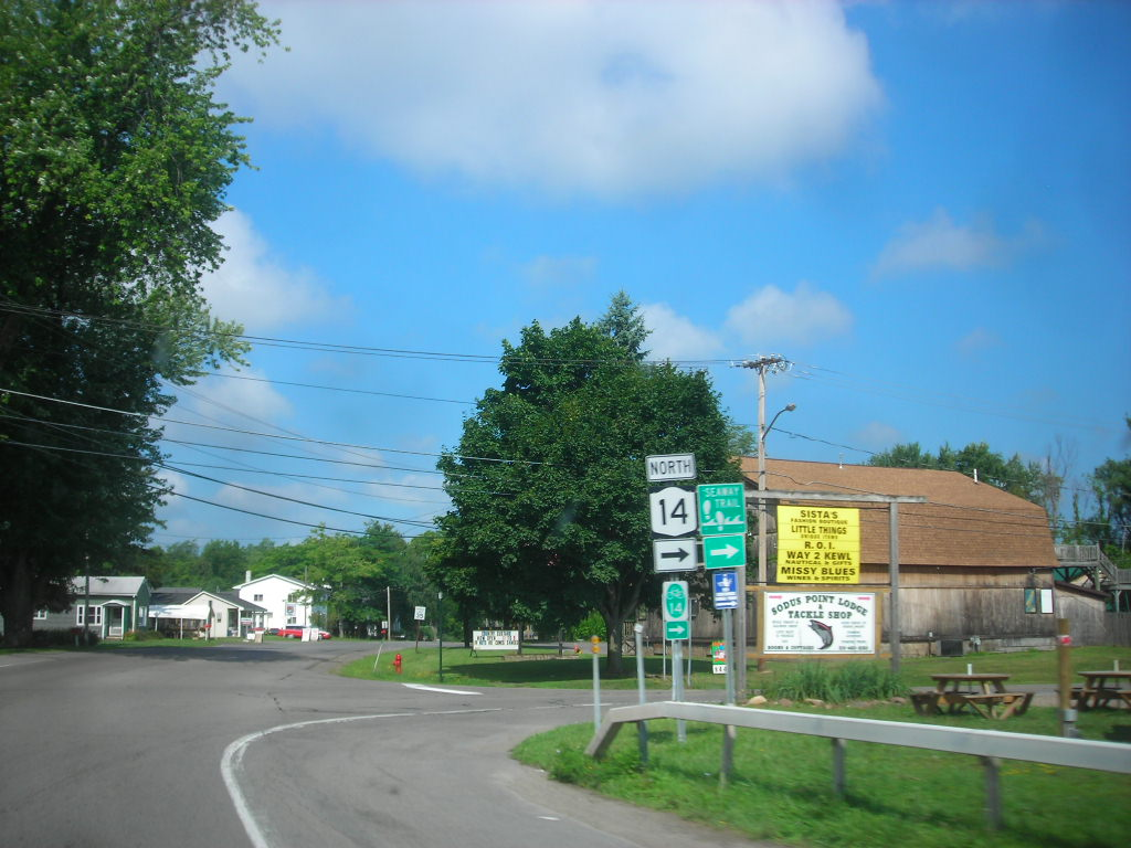 The west end of New York State Route 14's overlap with Ridge Road in the hamlet of Alton.